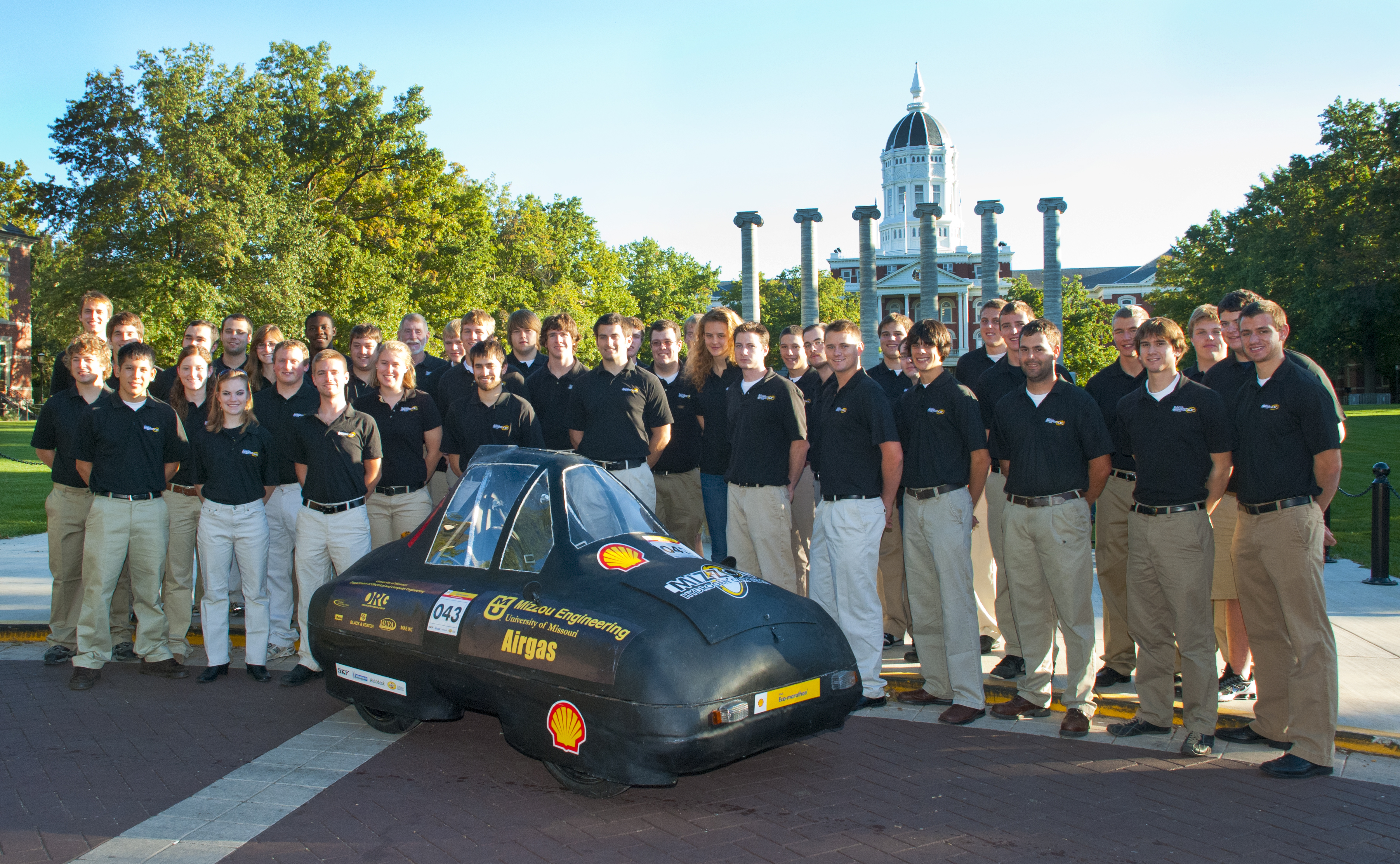 Tigergen II with team members on the quad